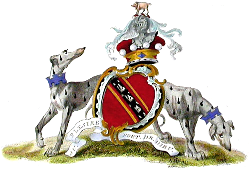 Heraldic achievement of the Edgcumbe family, Earls of Mount Edgcumbe of Mount Edgcumbe in Cornwall. Arms: Gules, on a bend ermines cotised or three boar's heads couped argent